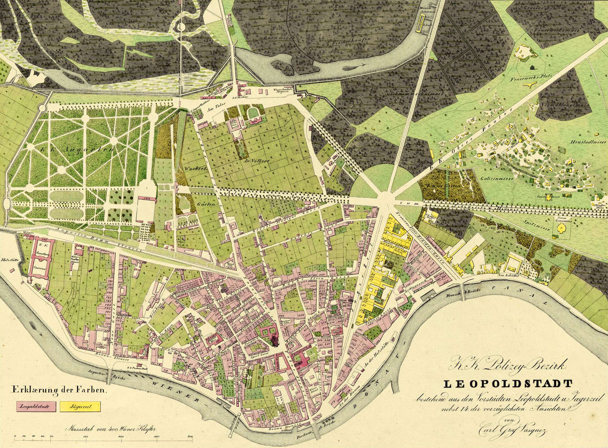 Map of Vienna Leopoldstadt, ca. 1830